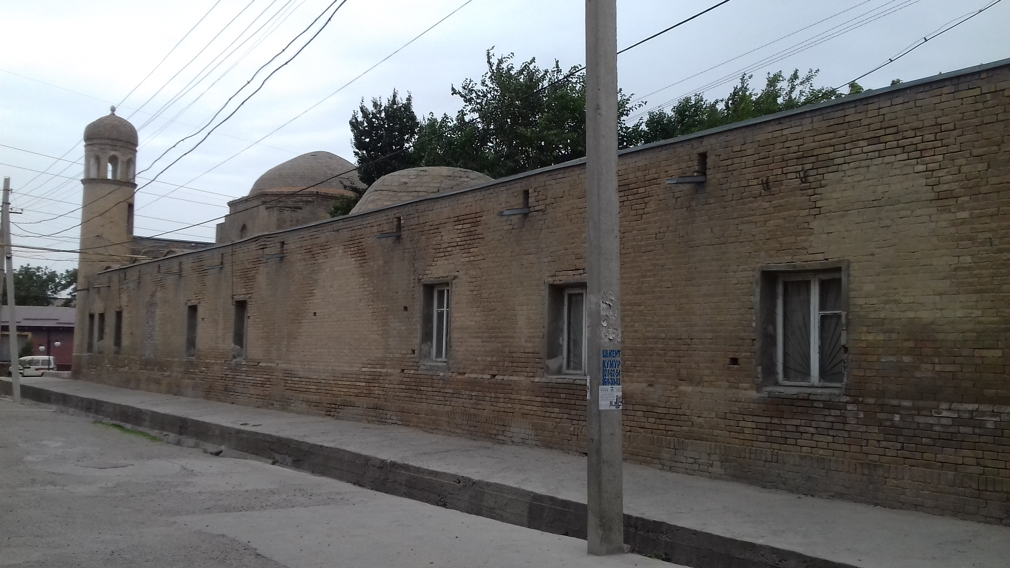 Iranian shia Panjab Madrasa in Samarkand (Uzbekistan)